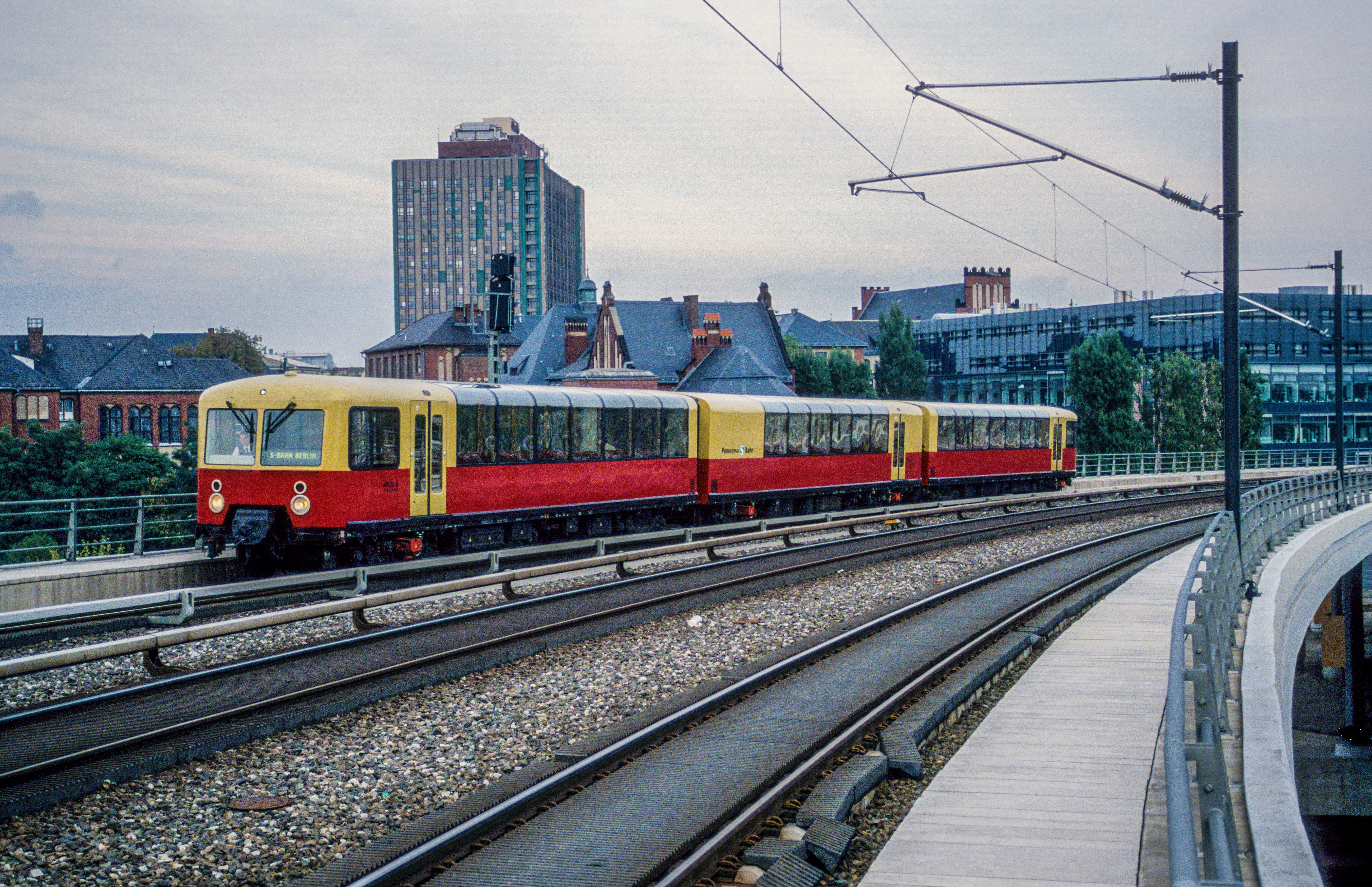 Panorama S-Bahn train (488 501) close Berlin Hbf train station